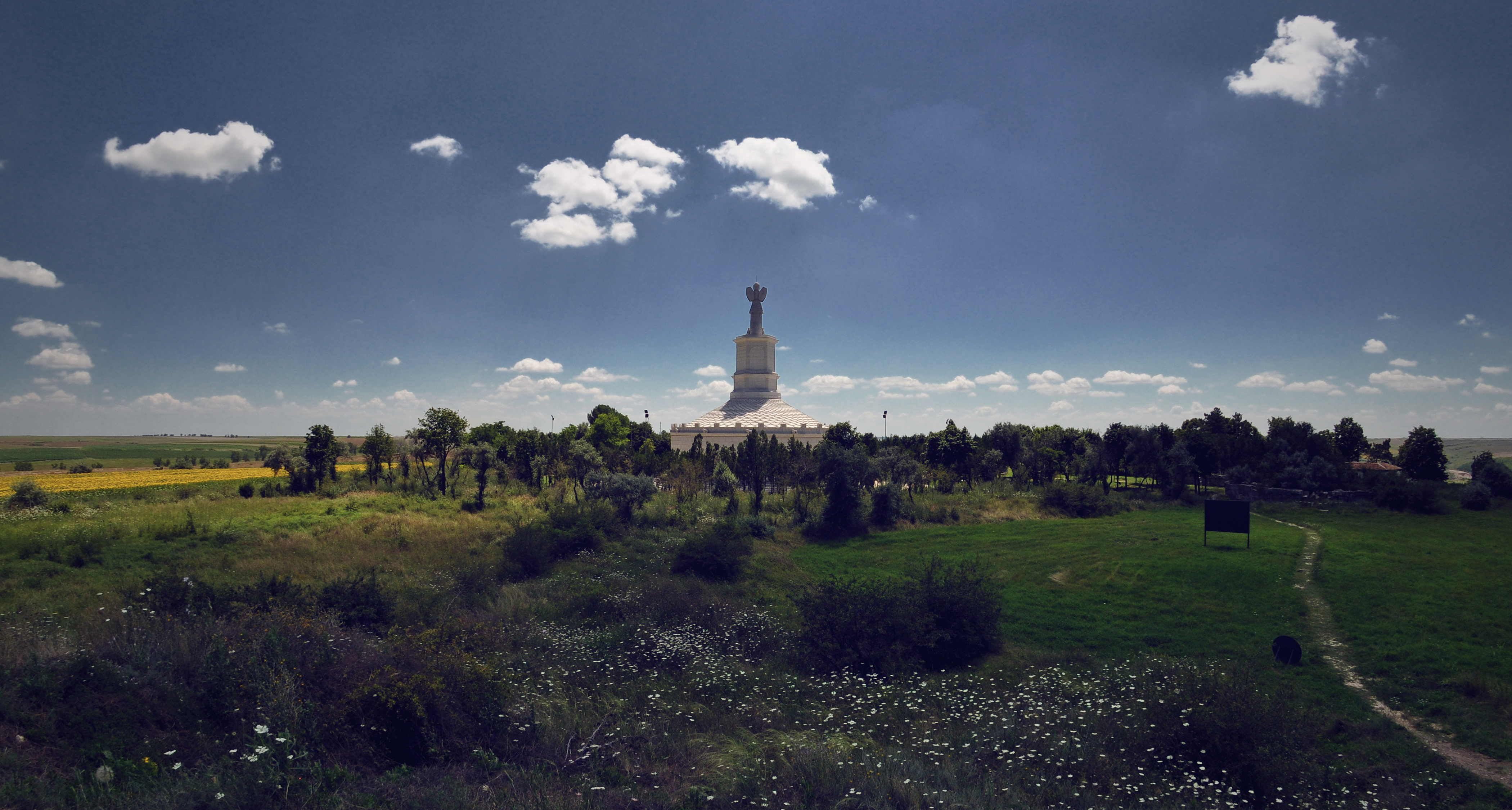 The Tropaeum Traiani is a monument in Roman Civitas Tropaensium (site of modern Adamclisi, Romania), built in 109 AD in then Moesia Inferior, to commemorate Roman Emperor Trajan's first victory over the Dacians, in the winter of 101-102, in the Battle of Adamclisi. The present edifice is a reconstruction [in situ] dating from 1977. 05